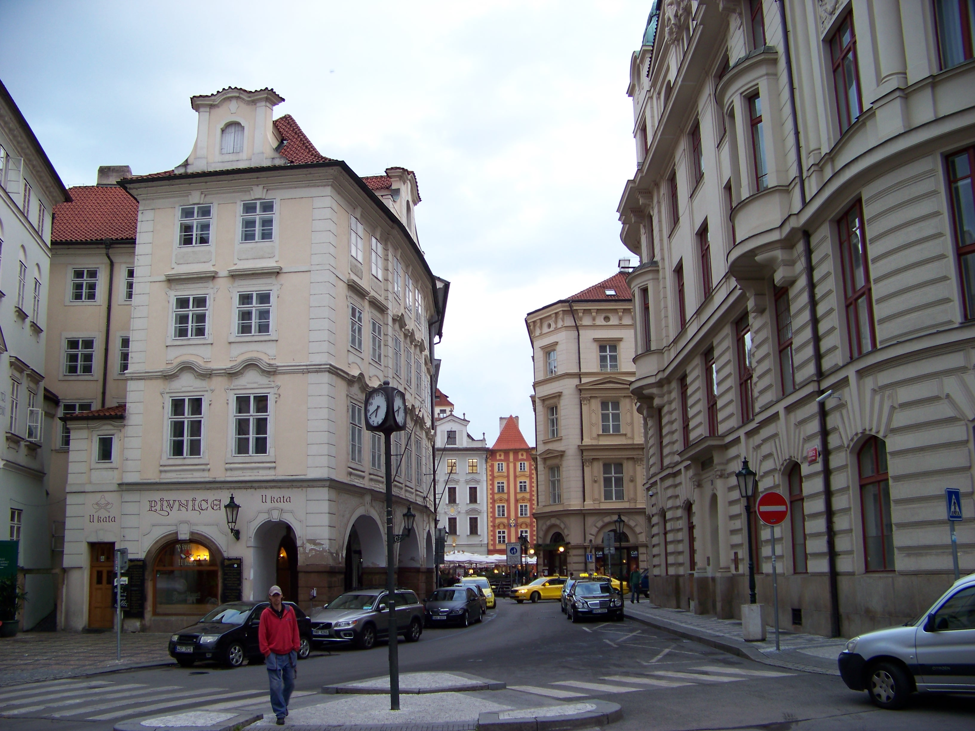 Prague-Old Town. Náměstí Franze Kafky 17/7.